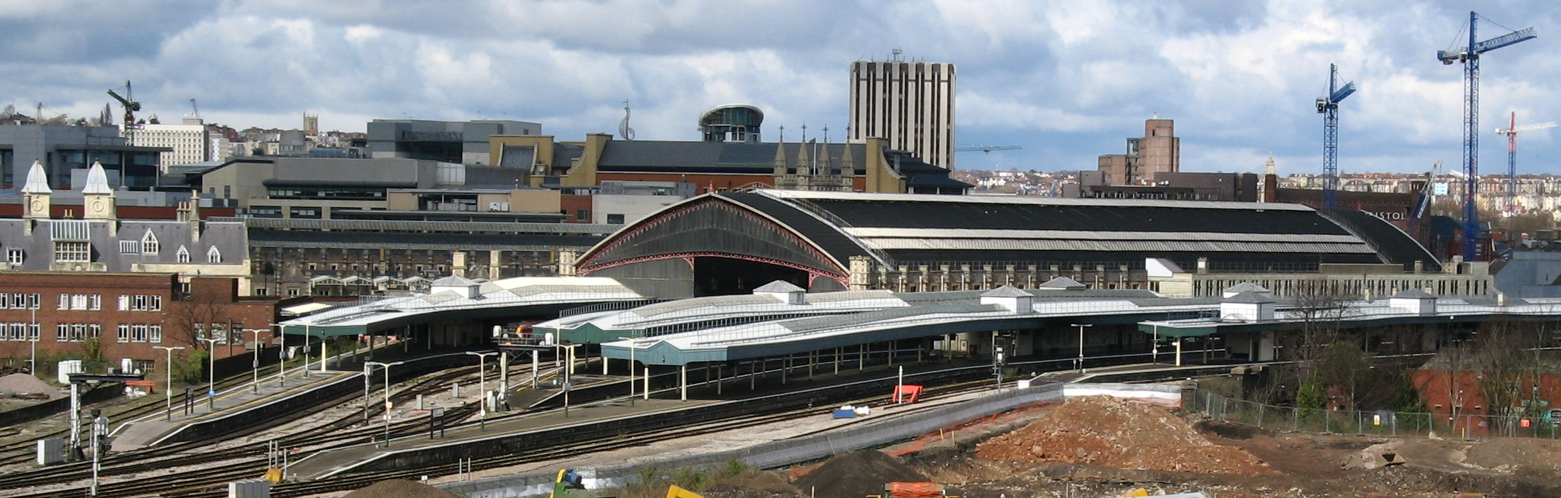 Bristol Temple Meads railway station, exterior view from south (from small hill between Bath Road and River Avon), over the site of the demolished Bristol Bath Road traction maintenance depot.